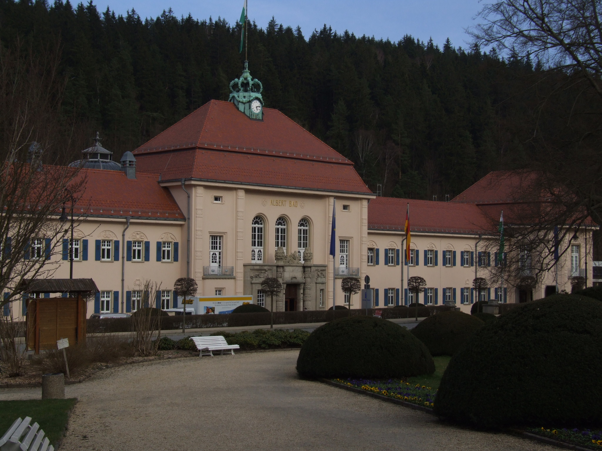 Bad Elster, Saxony, Germany in April 2008. Albert Bad